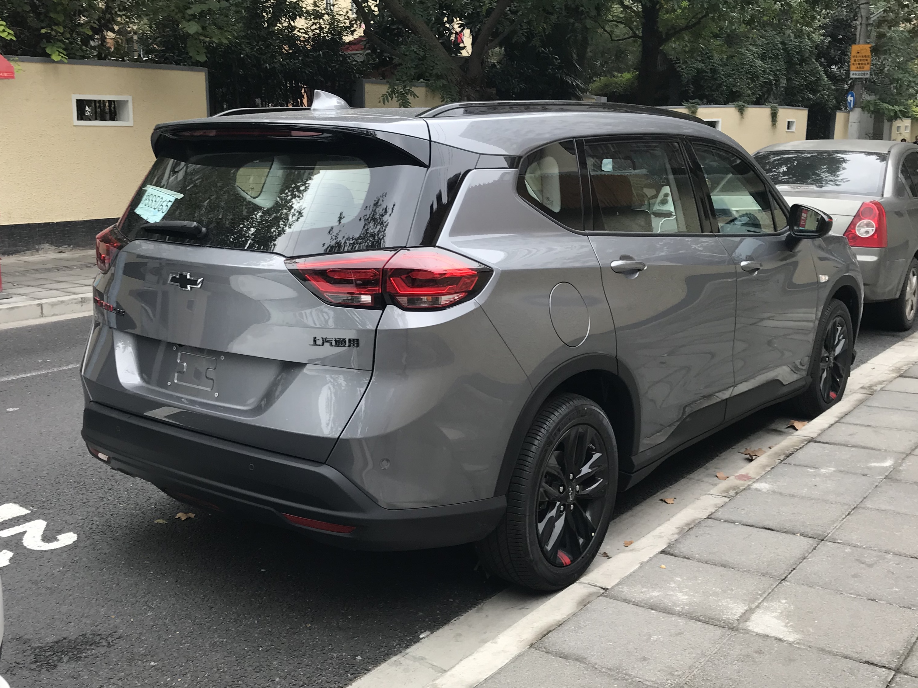 Chevrolet Orlando rear